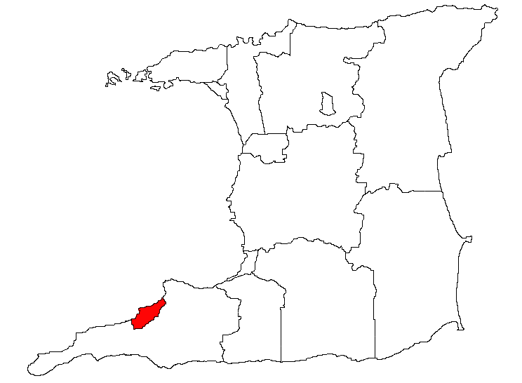 Location map of the Borough of Point Fortin, Trinidad and Tobago